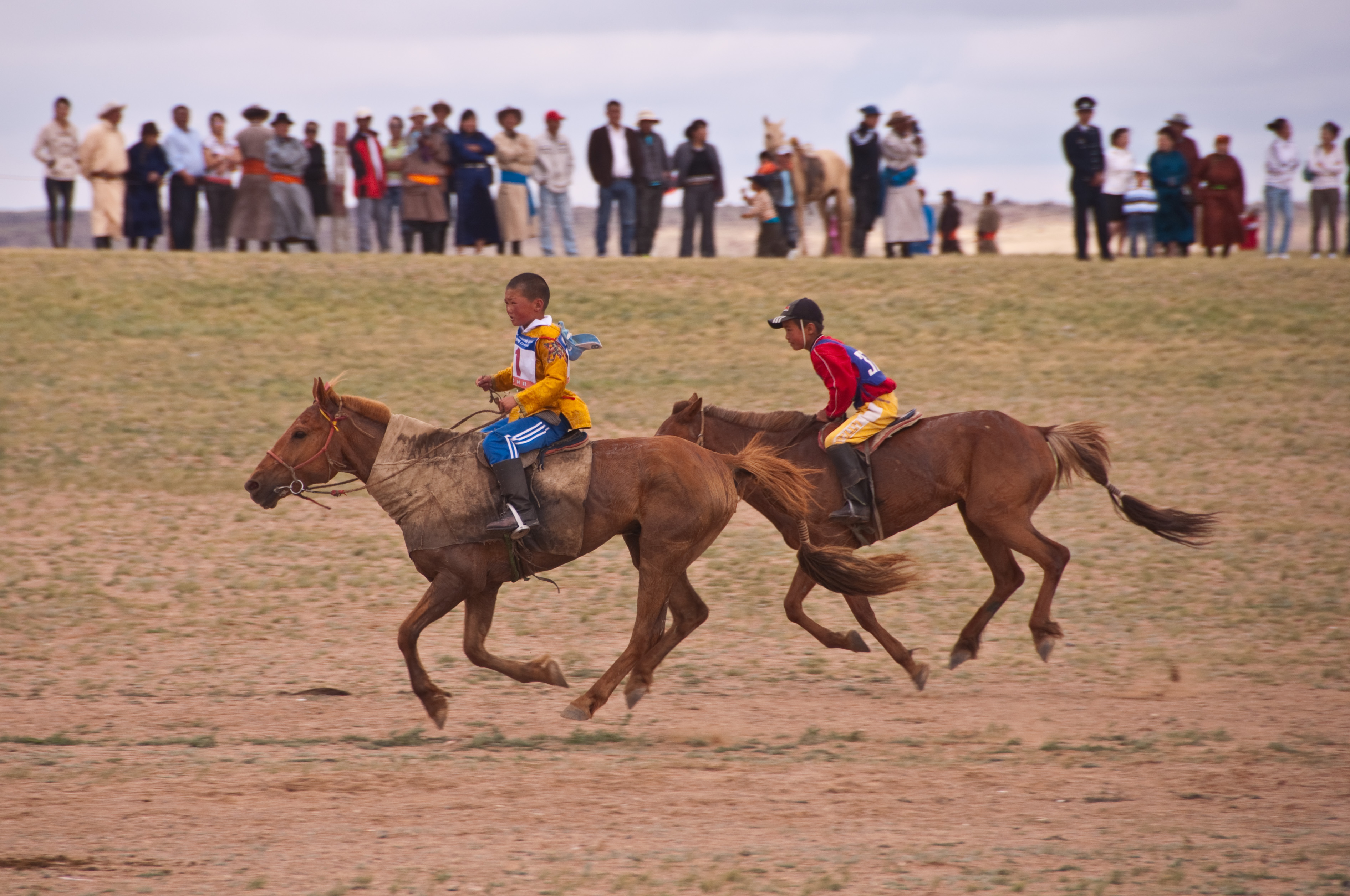 Two young riders race across the finish line in a Nadaam horse race in Mandalgovi, Mongolia. Nadaam is the annual Mongolian festival of the "Three Manly Arts" - horse racing, archery, and wrestling - that is celebrated in towns large and small across the country.